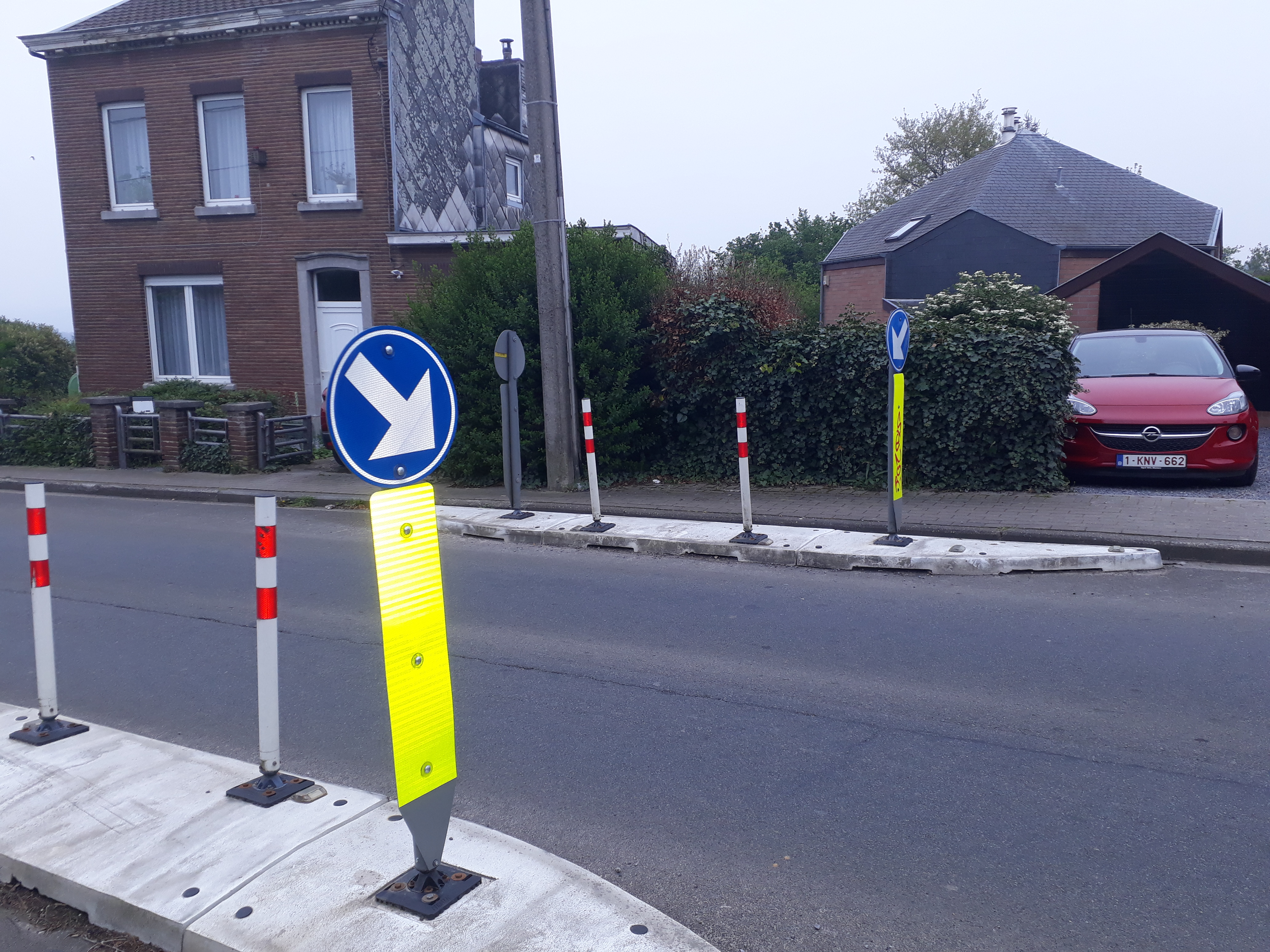 Vottem 44 n